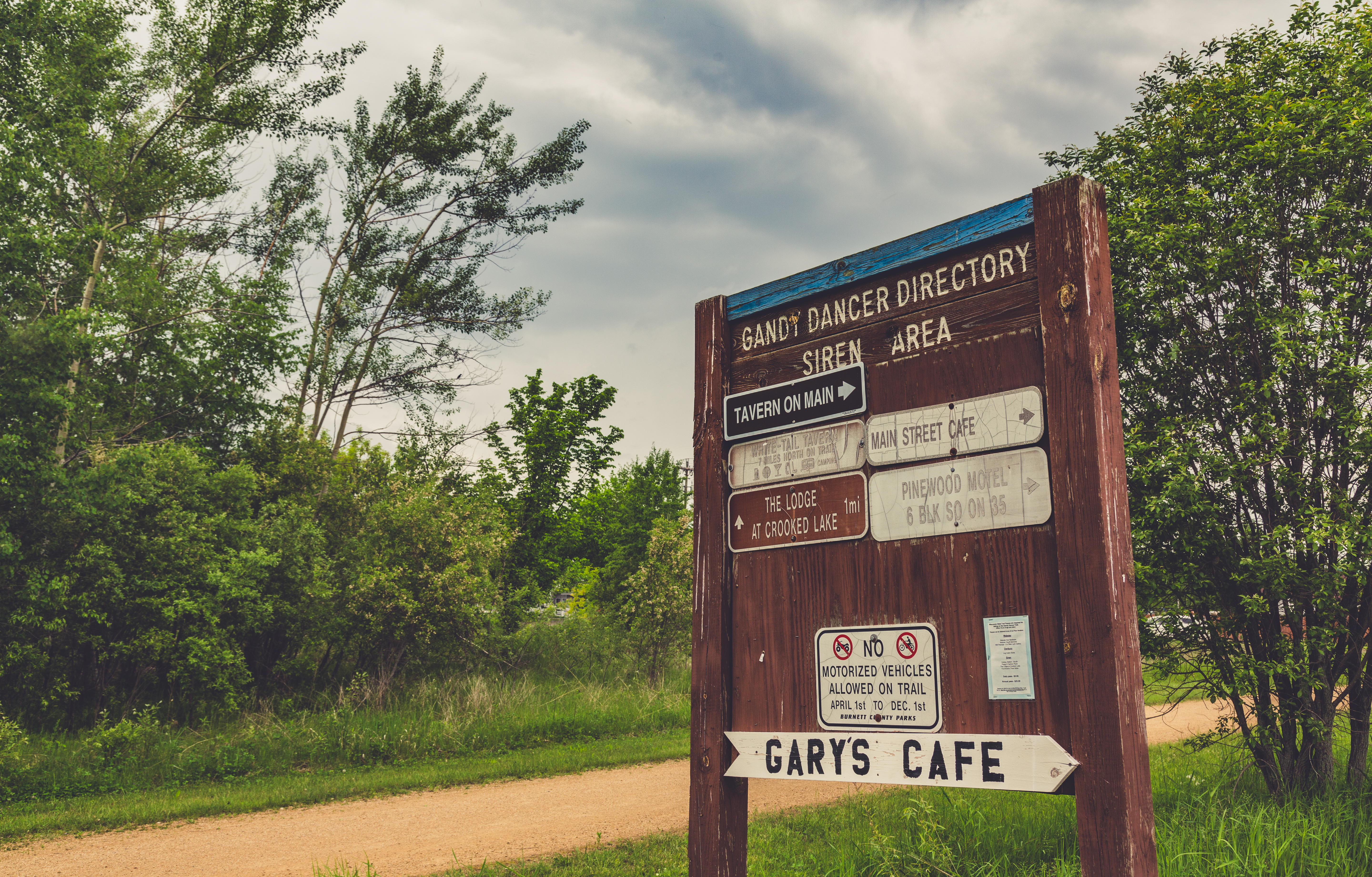 A sign along the Gandy Dancer State Trail points to nearby attractions in Siren, Wisconsin: Tavern on Main, White-Tail Tavern, Main Street Cafe, The Lodge at Crooked Lake, Pinewood Motel, Gary's Cafe.